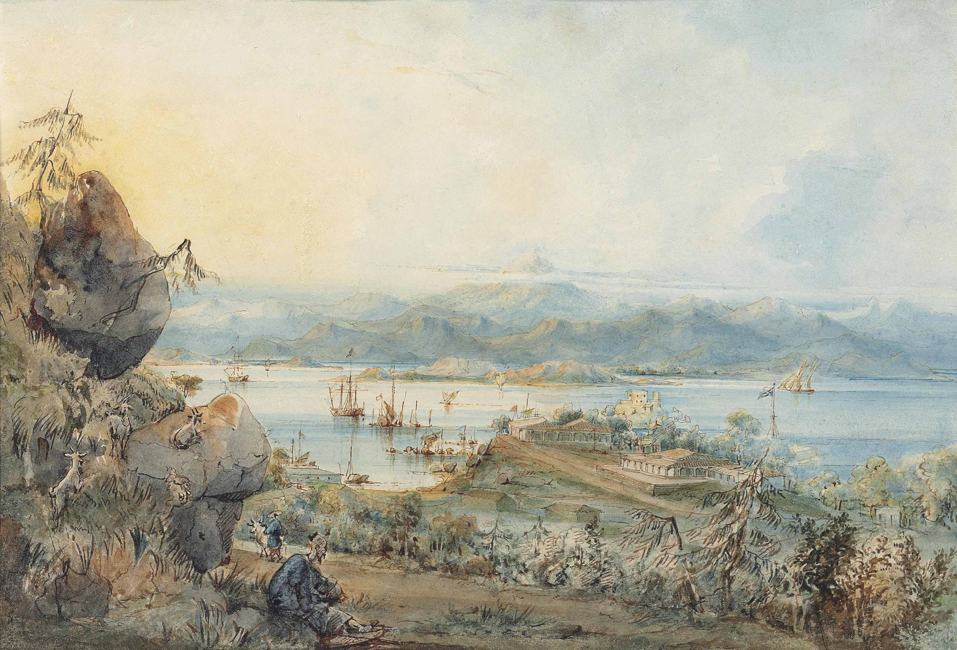 Digital version of the original "pen and ink and watercolour on paper" copy